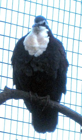 White-bibbed Ground-dove (Gallicolumba jobiensis), Taronga Zoo, Sidney